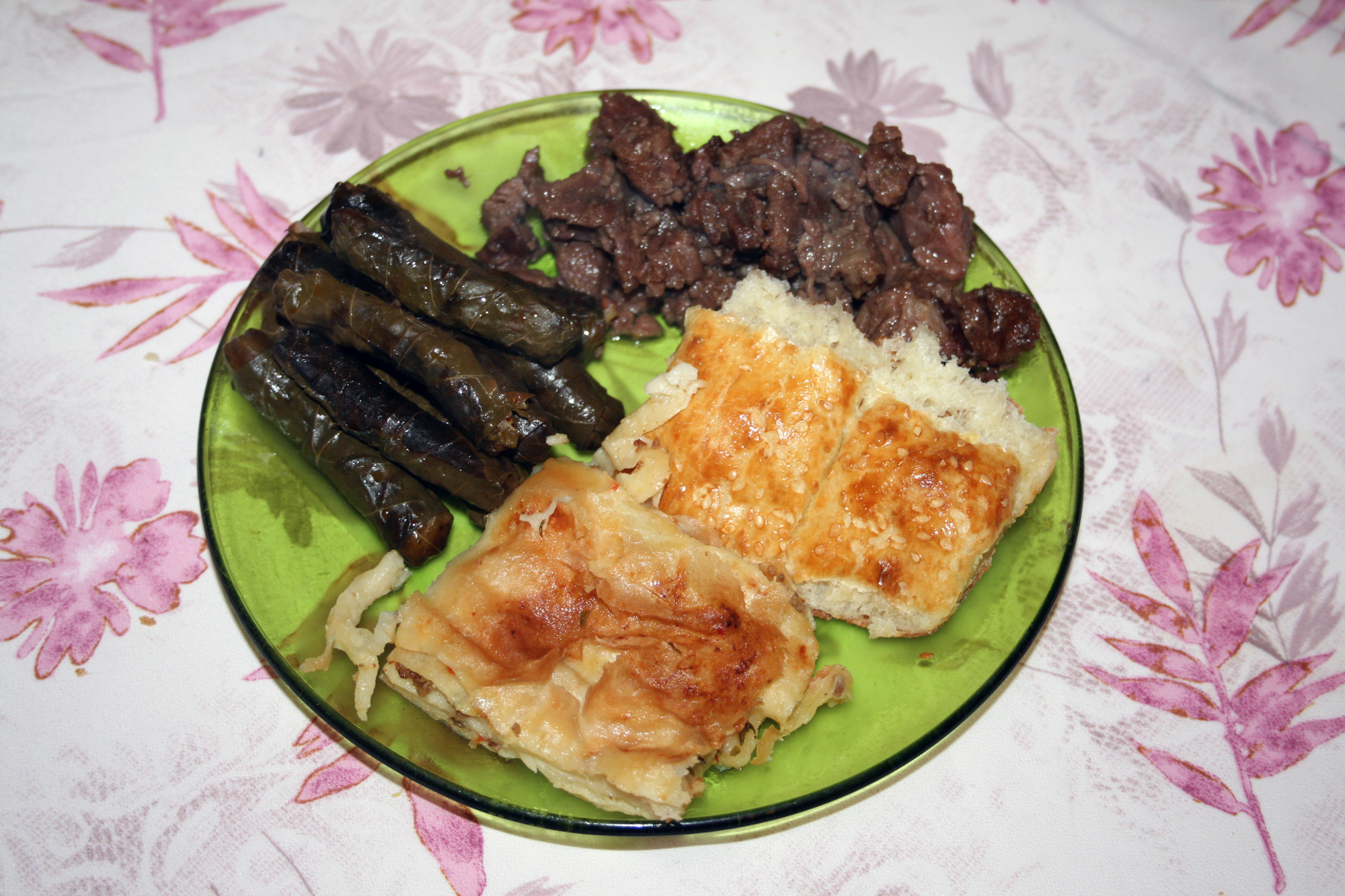 A plate served to guests during "Kurban Bayramı", according to Turkish traditions. It contains dolma (sarma, stuffed vine leaves), börek, and kavurma with a little piece of traditional home-baked bread. Kavurma is a meat meal served during Kurban Bayramı (Eid-al-Adha) and almost always made from the meat of the sacrificed animal.